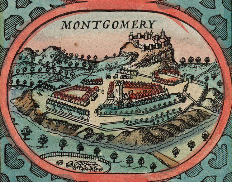 Insert from John Speeds County maps of Wales for first published in The Theatre of the Empire of Great Britain by George Humble